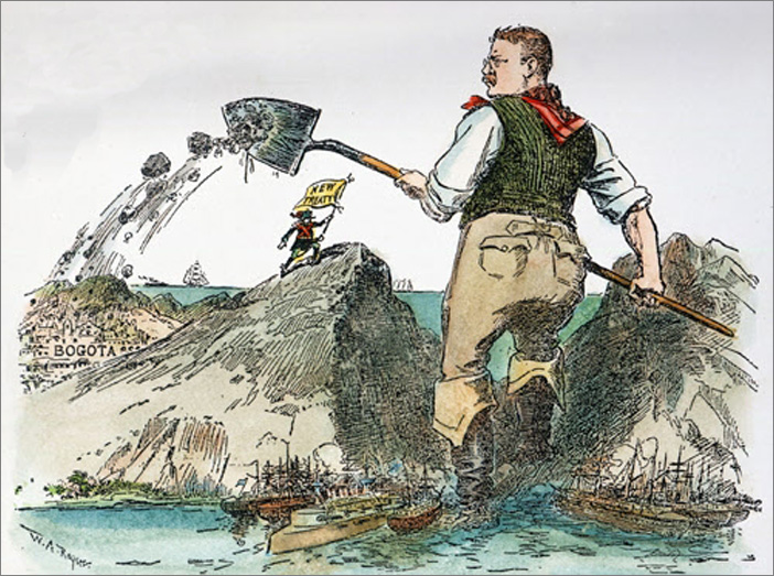 Political Cartoon. The News Reaches Bogota. Theodore Roosevelt builds the Panama Canal— and shovels dirt on Colombia.